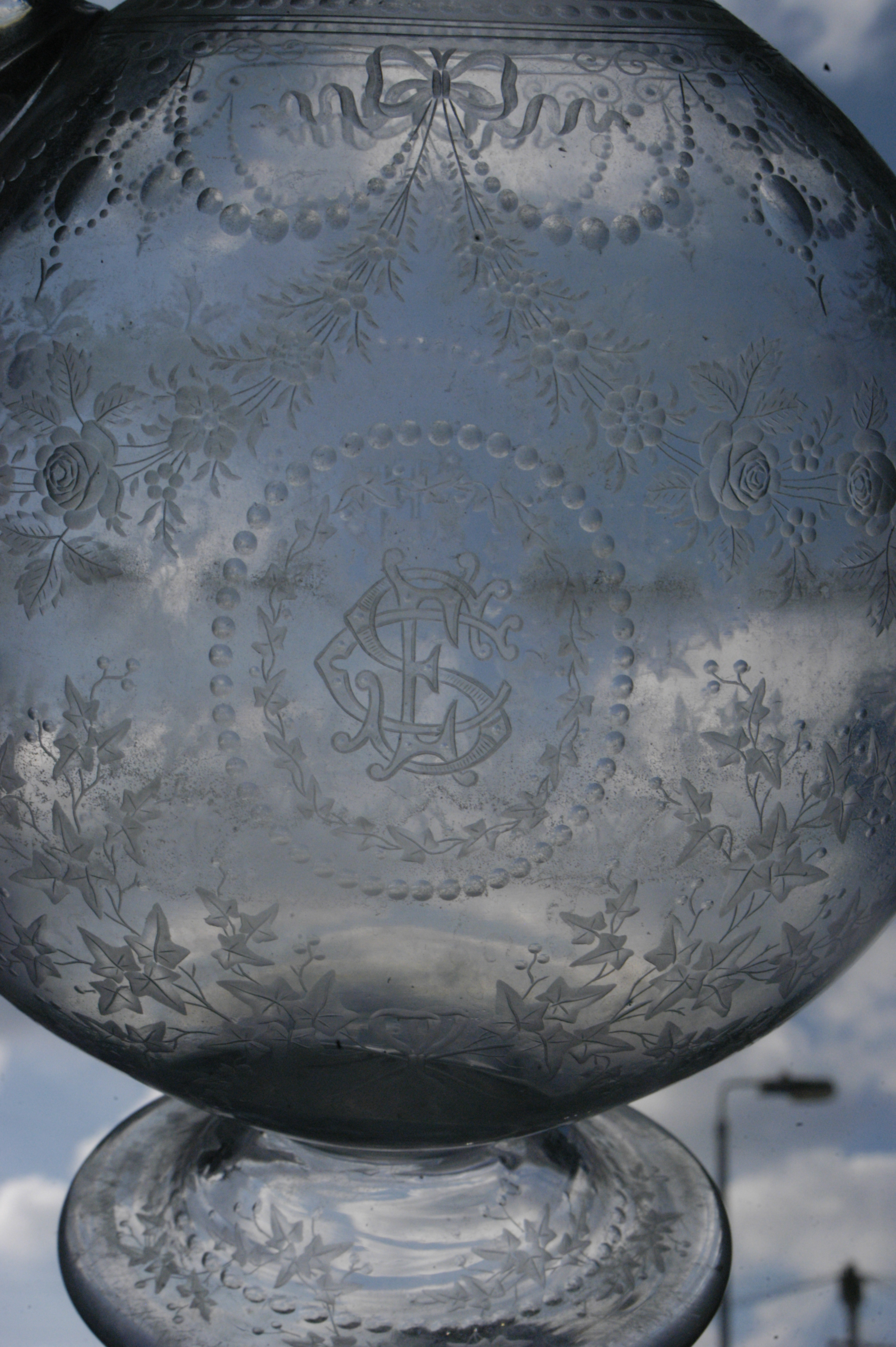 Photograph (by me, R. de Salis, Rodolph (talk)) of a Victorian glass jug with monogram for Charles Seely and his wife Emily Evans.